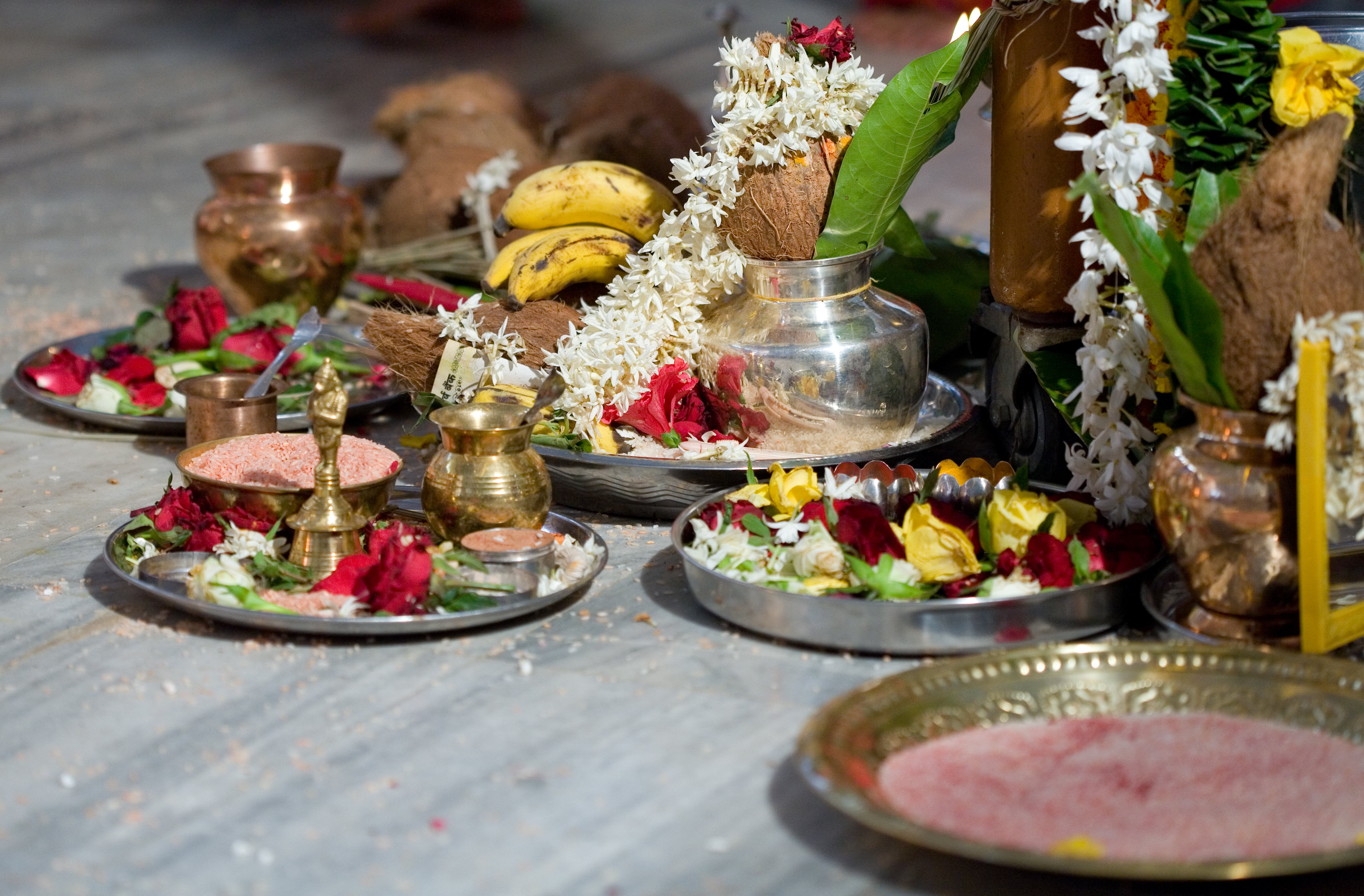 Hindu puja ritual flowers, rice, bell, camphor, etc